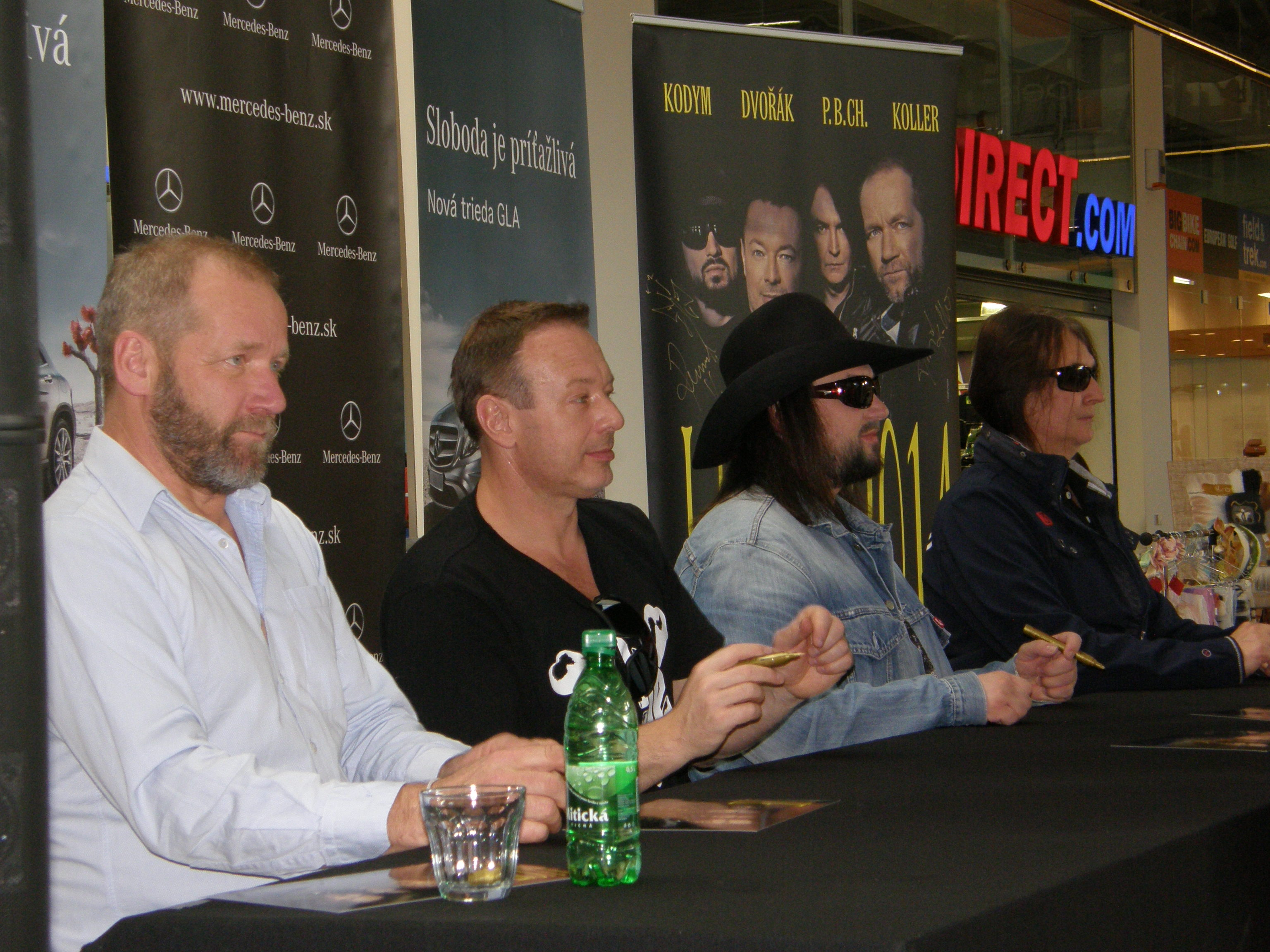 Members of Czech rock band Lucie signing autographs for fans, Avion Shopping Park, Bratislava, Slovakia.